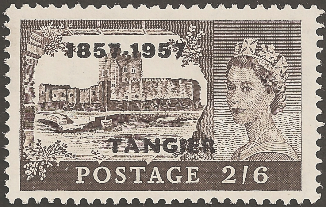 Stamp of the United Kingdom overprinted for use in the British postal agencies in Morroco. This overprint of 1957 commemorated the centenary of the Tangier office, just before he closed. The stamp originated from the Castle definitives series of 1955, picturing the Carrickfergus Castle, in Northern Ireland. The stamp was designed by Lynton Lamb.